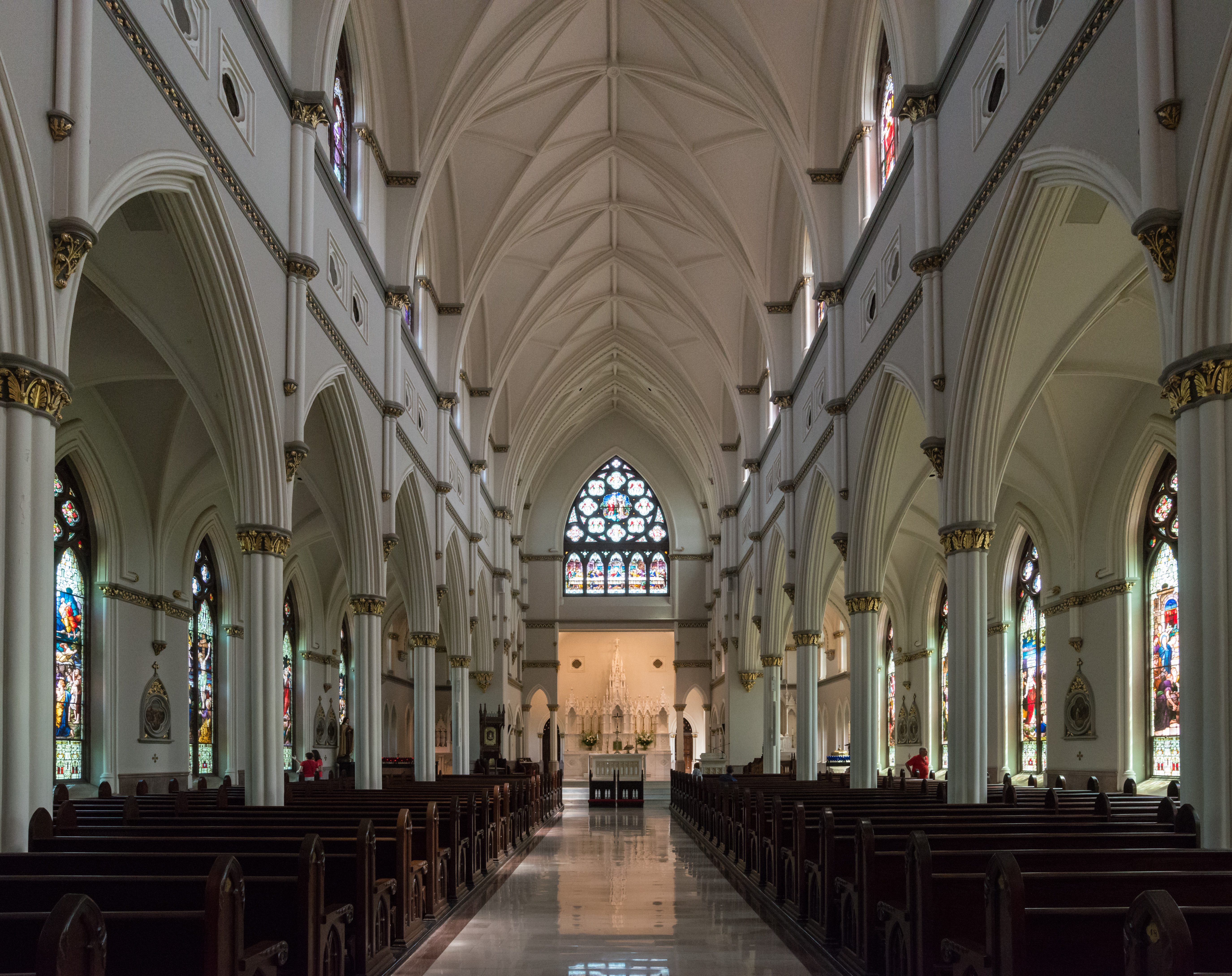 An interior view of Cathedral of Saint John the Baptist, Charleston, South Carolina